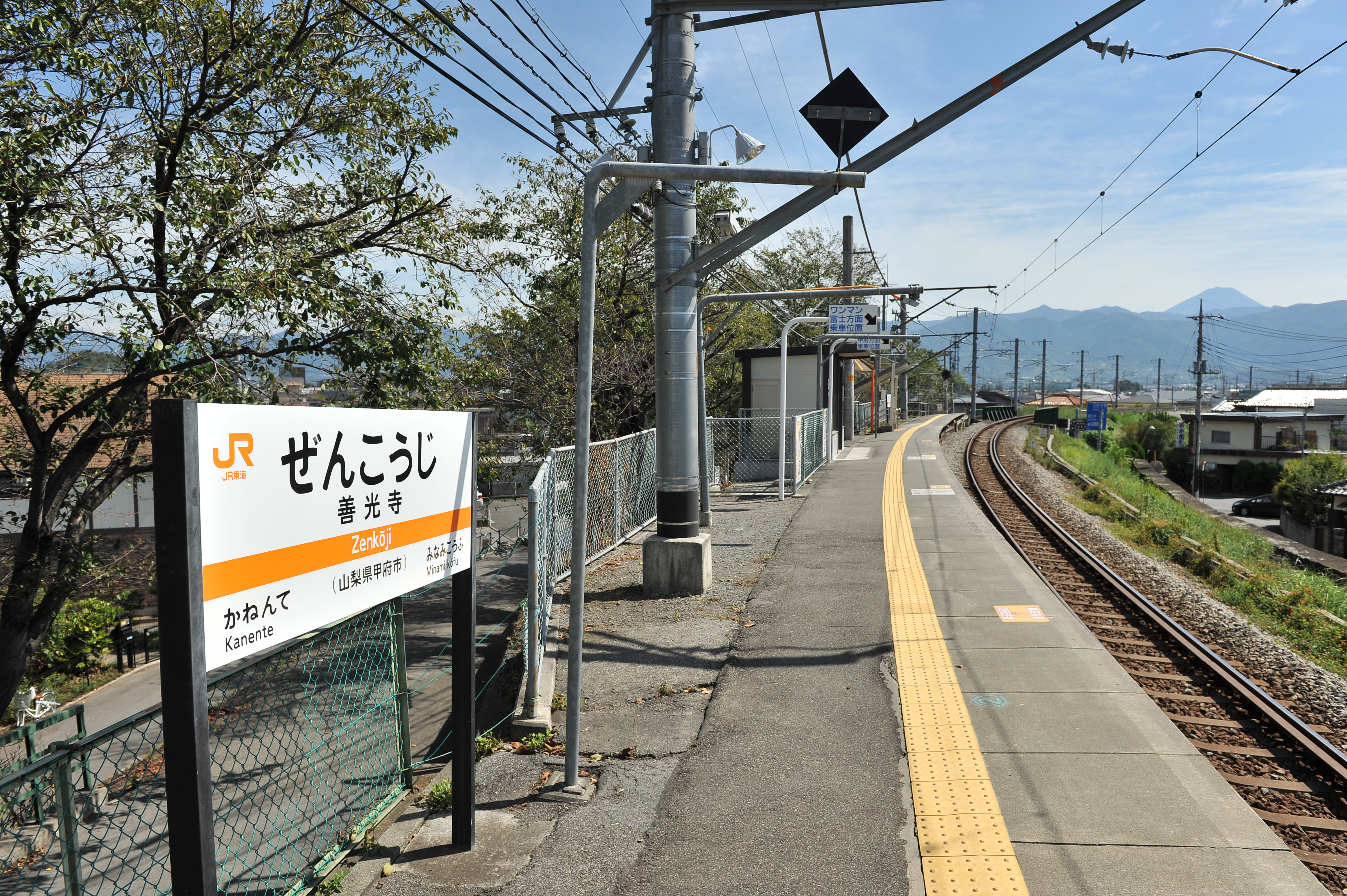 Zenkoji Station (JR Central Minobu Line) platform, Kofu, Yamanashi